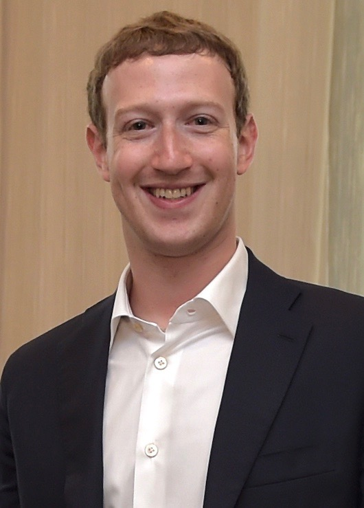 Businessman Mark Zuckerberg in September 2014